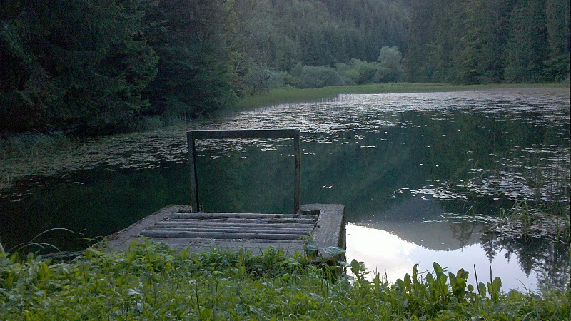 Turík lake